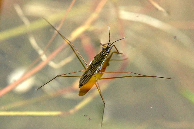 Gerris lacustris from Commanster, Belgian High Ardennes .